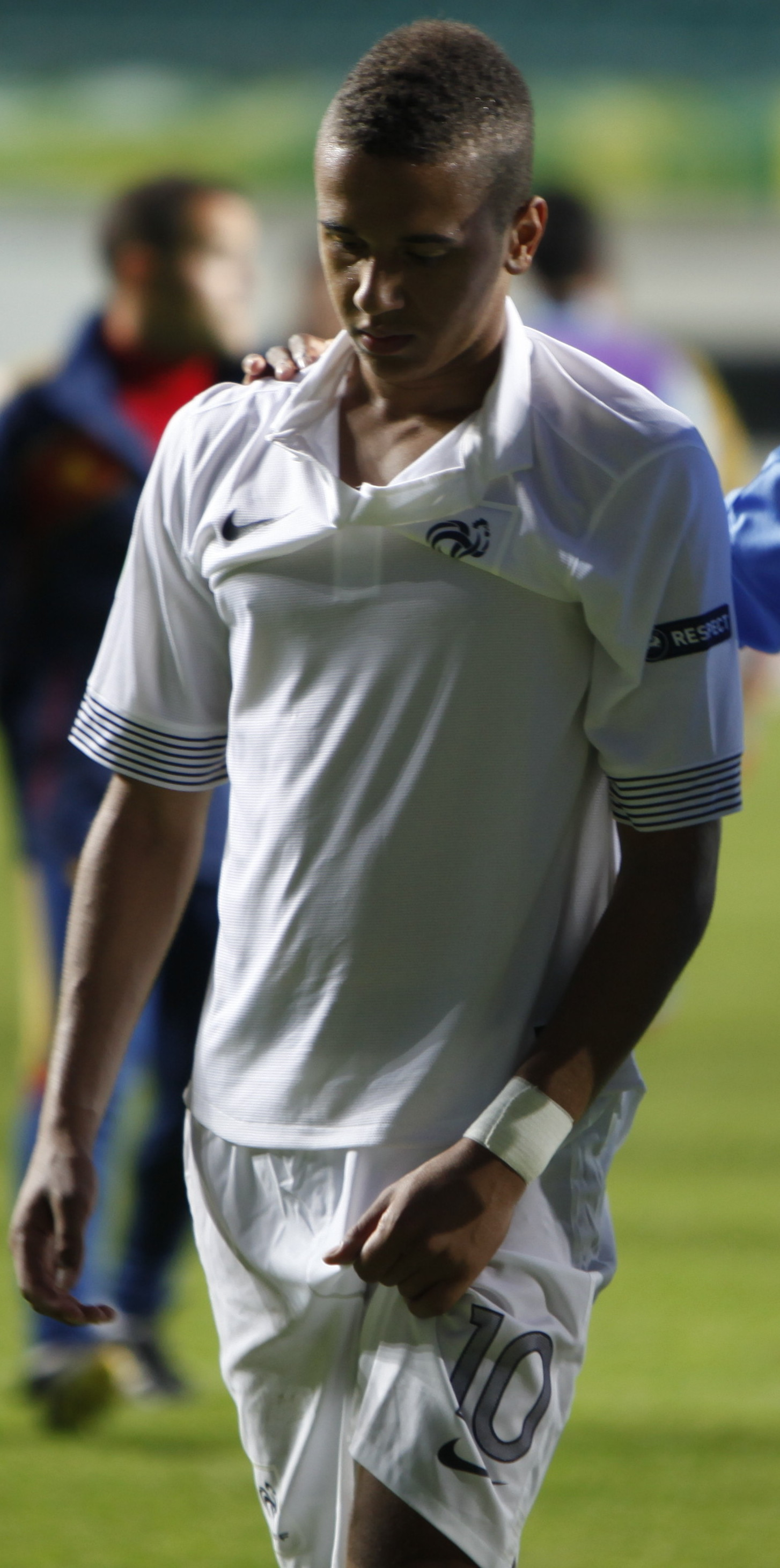 Axel Ngando, U-19 Spain vs France.